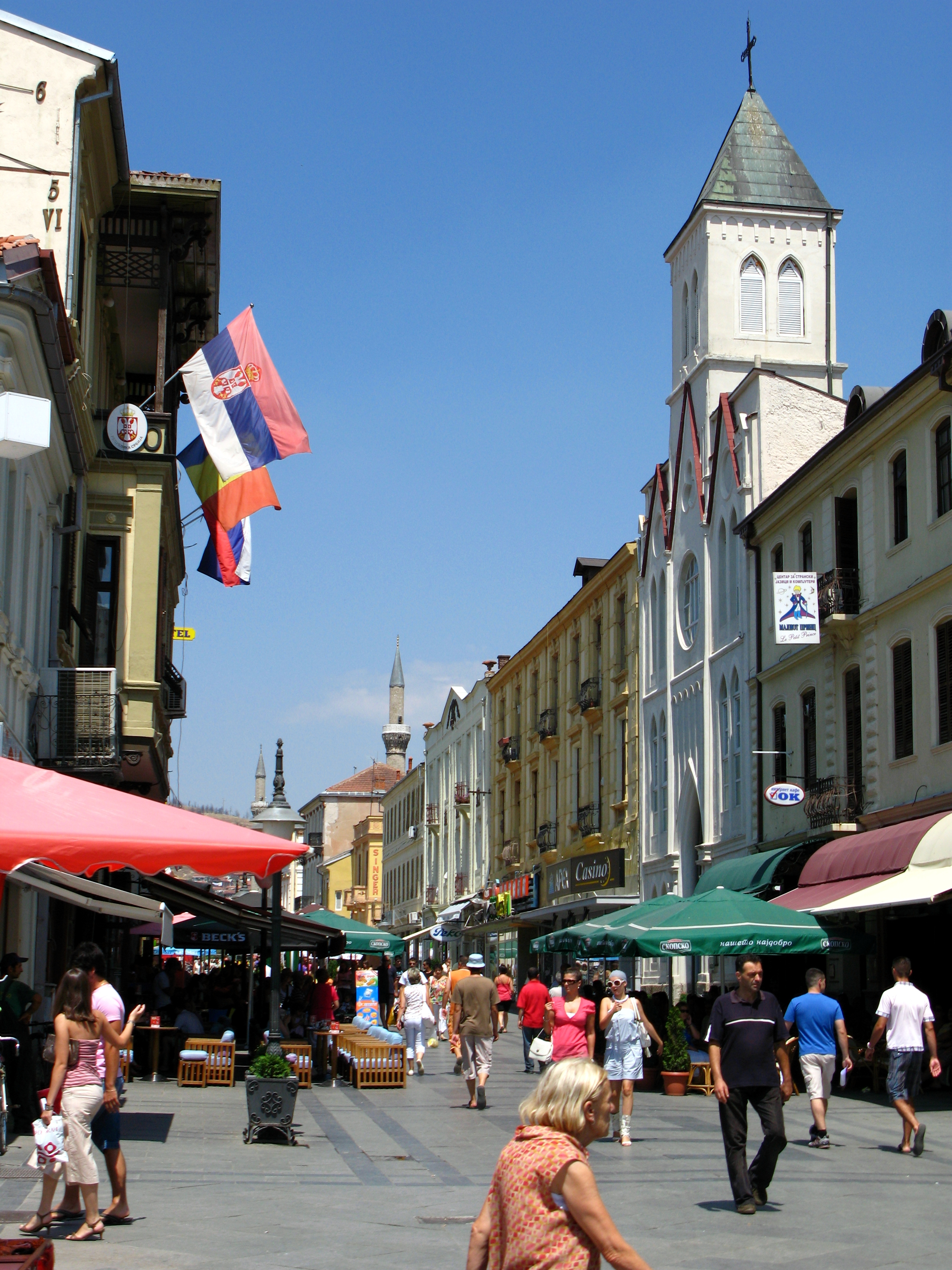 Bitola's promenade, Bitola, Macedonia.